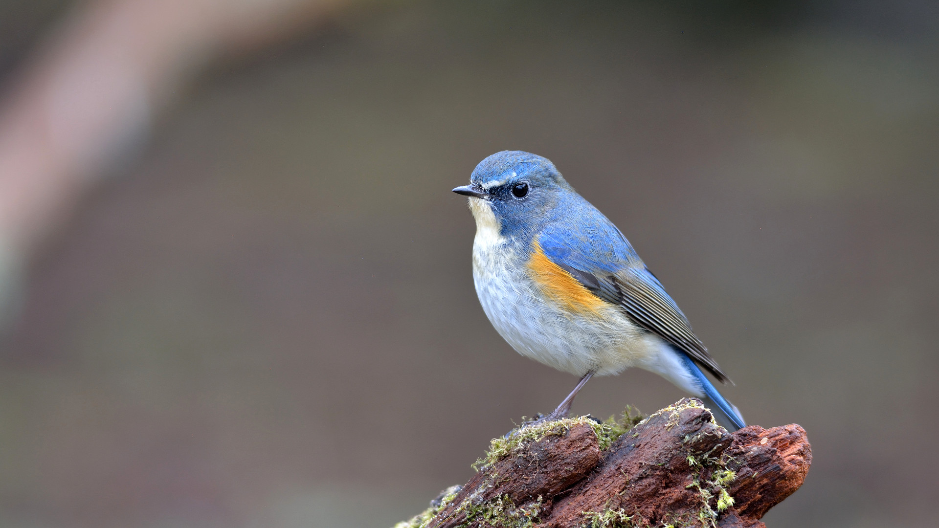 Orange-flanked Bluetail, male, winter visitor of Taiwan.